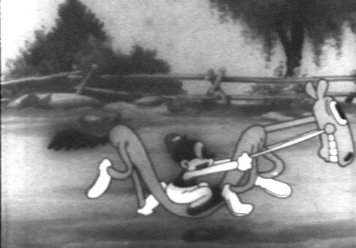 scene from public domain animated feature Bosko's Fox Hunt